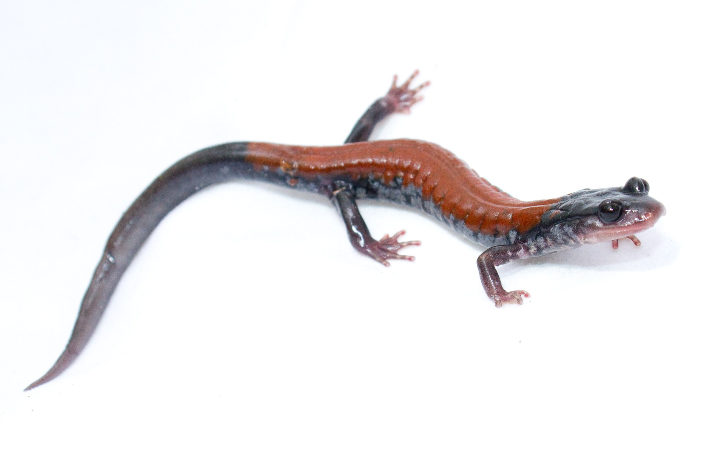 Yonahlossee salamander